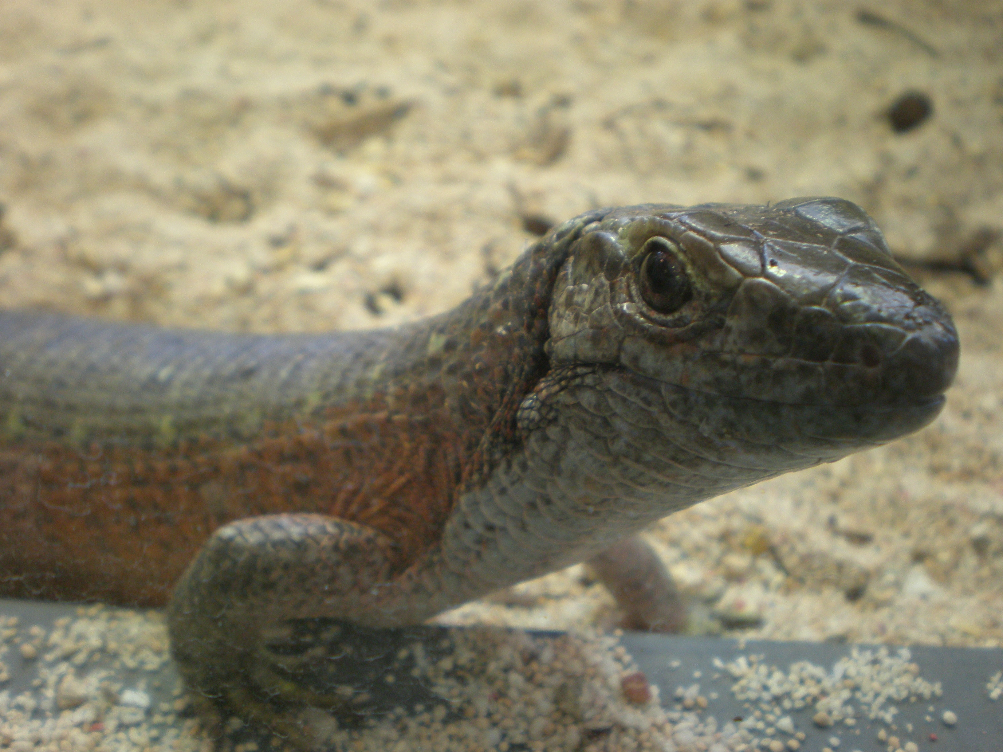 A Madagascar Plated Lizard (Zonosaurus madagascariensis) at the Islands of Evolution exhibit of the Kimball Natural History Museum at the California Academy of Sciences in San Francisco.